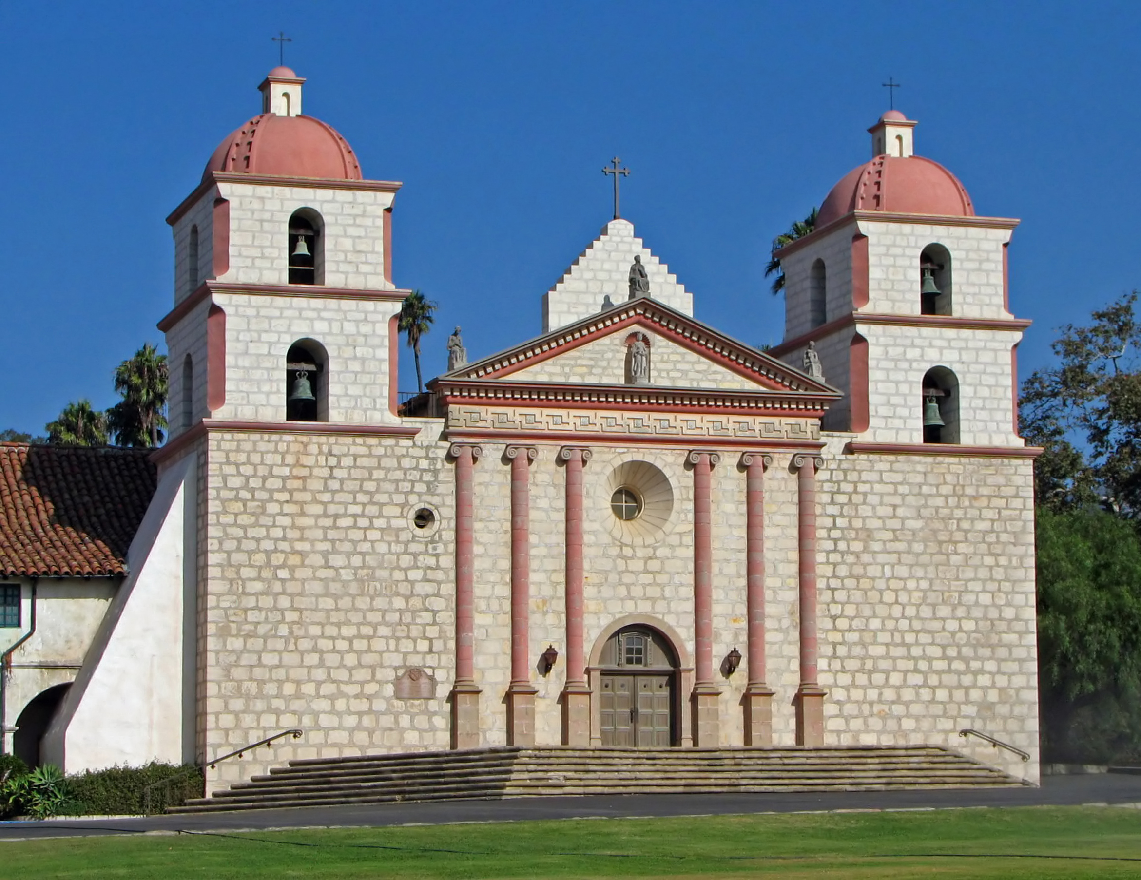 Mission Santa Barbara chapel, Santa Barbara, California, USA